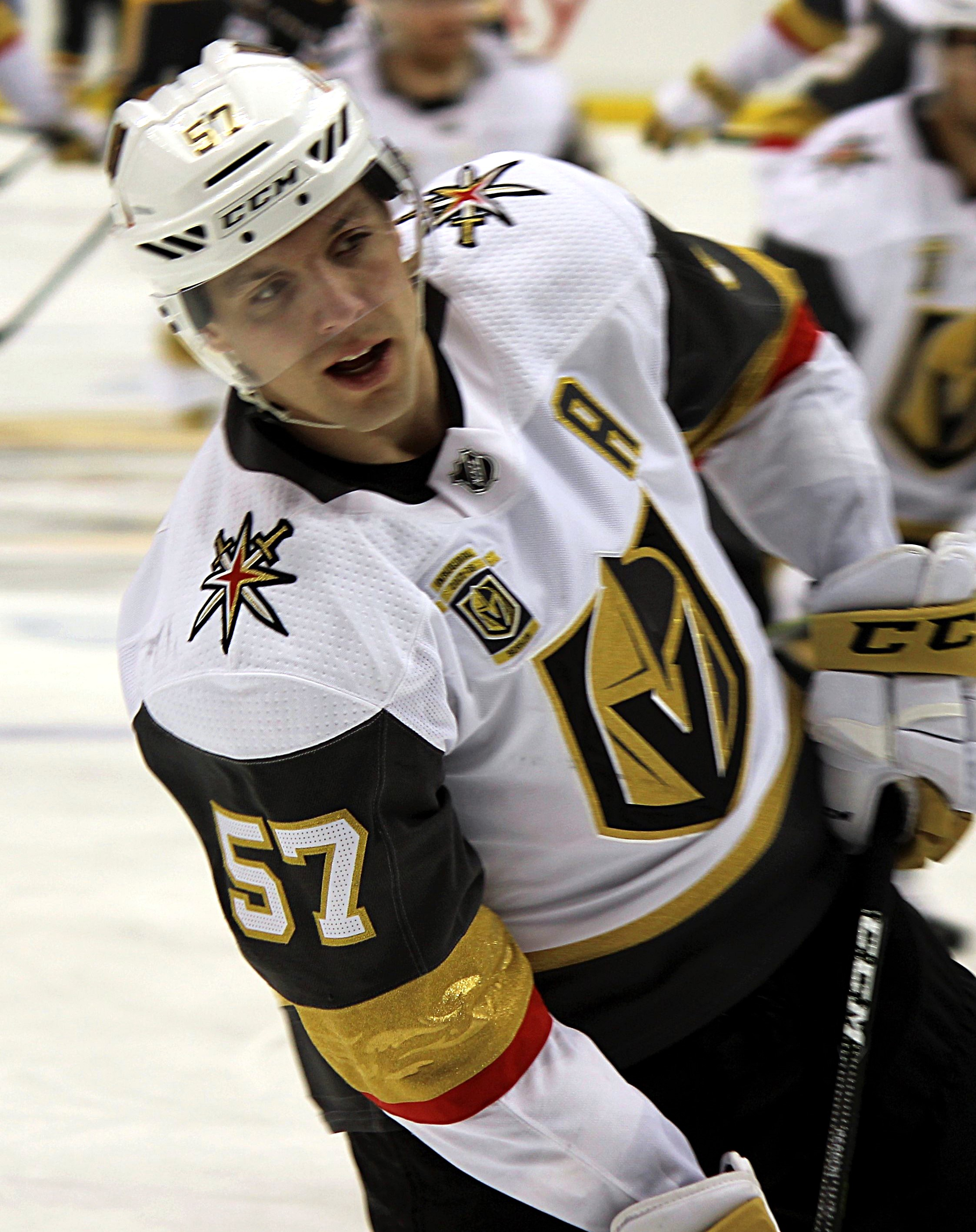 Vegas Golden Knights forward David Perron during a game against the Pittsburgh Penguins, February 6, 2018, at PPG Paints Arena in Pittsburgh, PA.